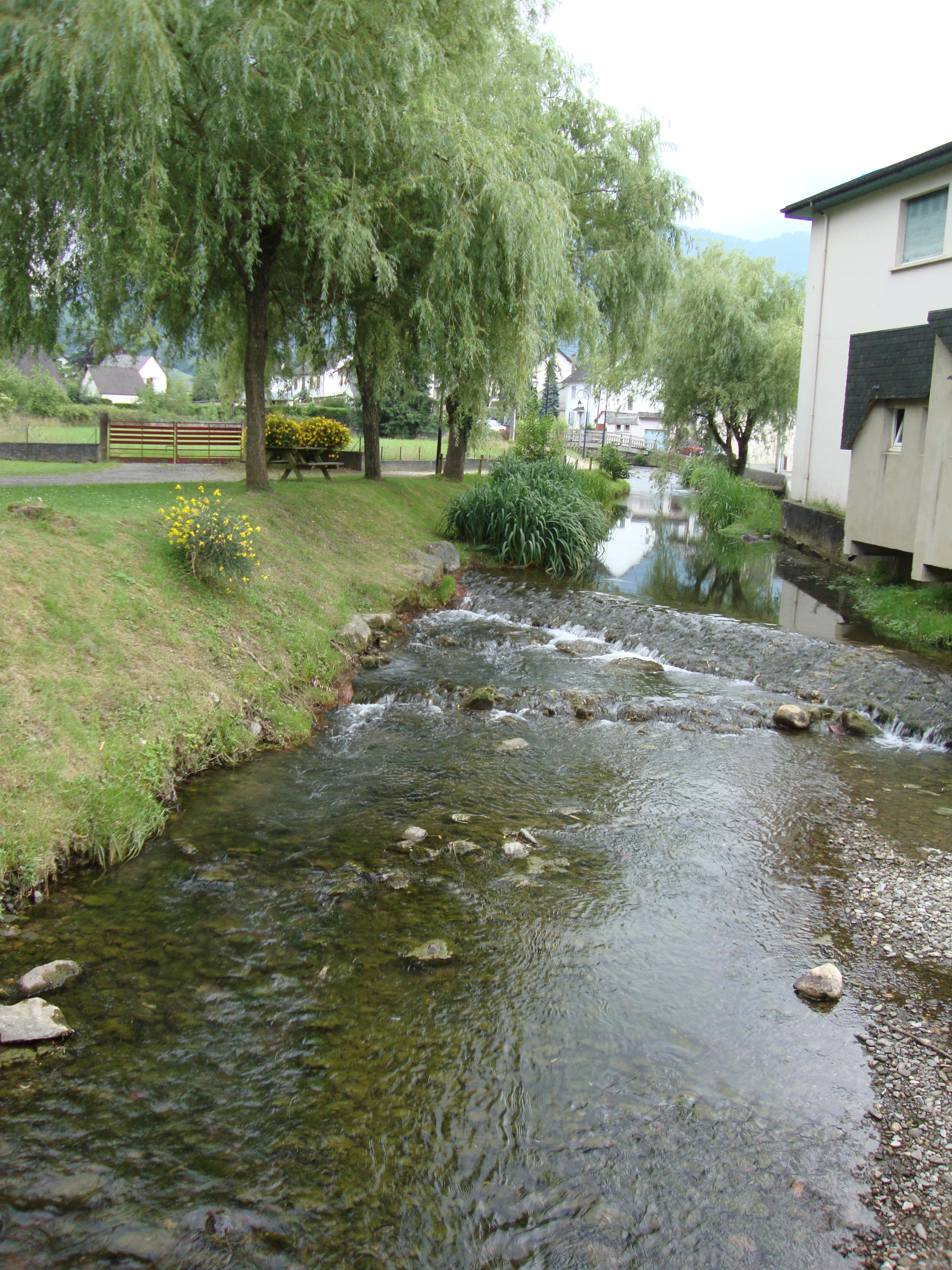 Arette (Pyr-Atl, Fr) Ruisseau Le Virgou (river), 2